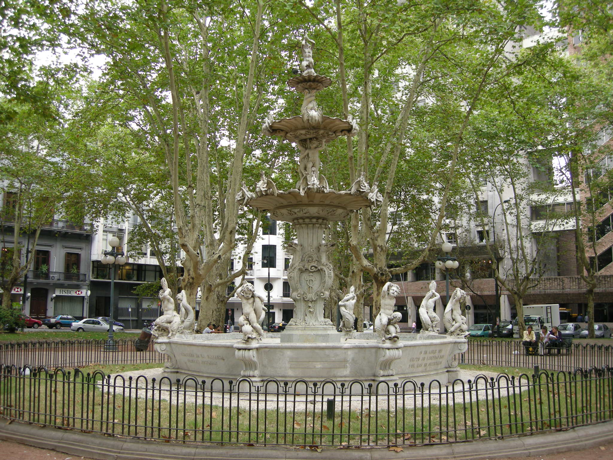 Fountain in Montevideo, Uruguay.